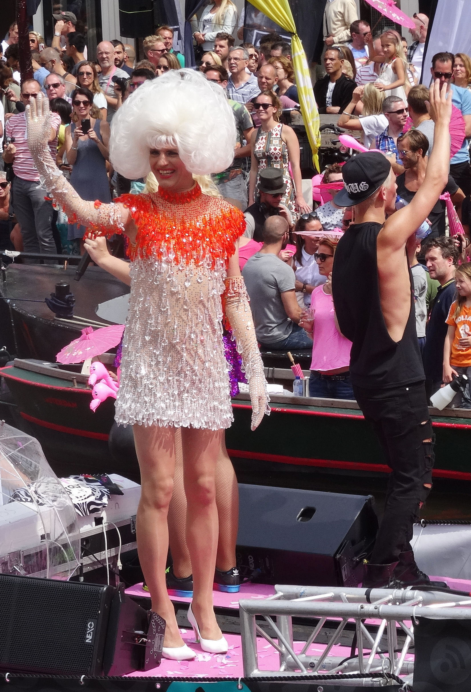 Impression of the Canal Parade at Amsterdam Gay Pride 2015, with Dolly Bellefleur.